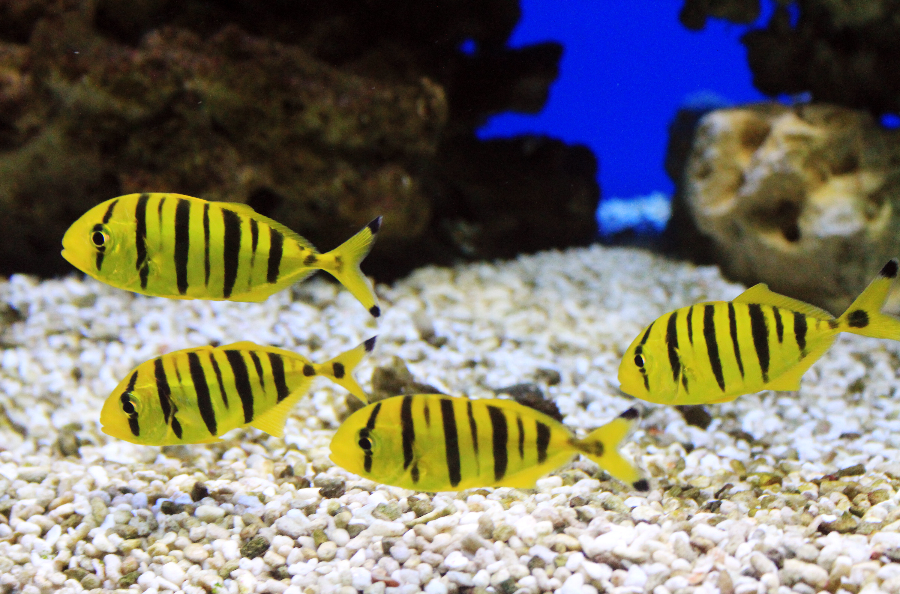 Fish Golden trevally (Gnathanodon speciosus) in Prague sea aquarium “Sea world”, Czech Republic